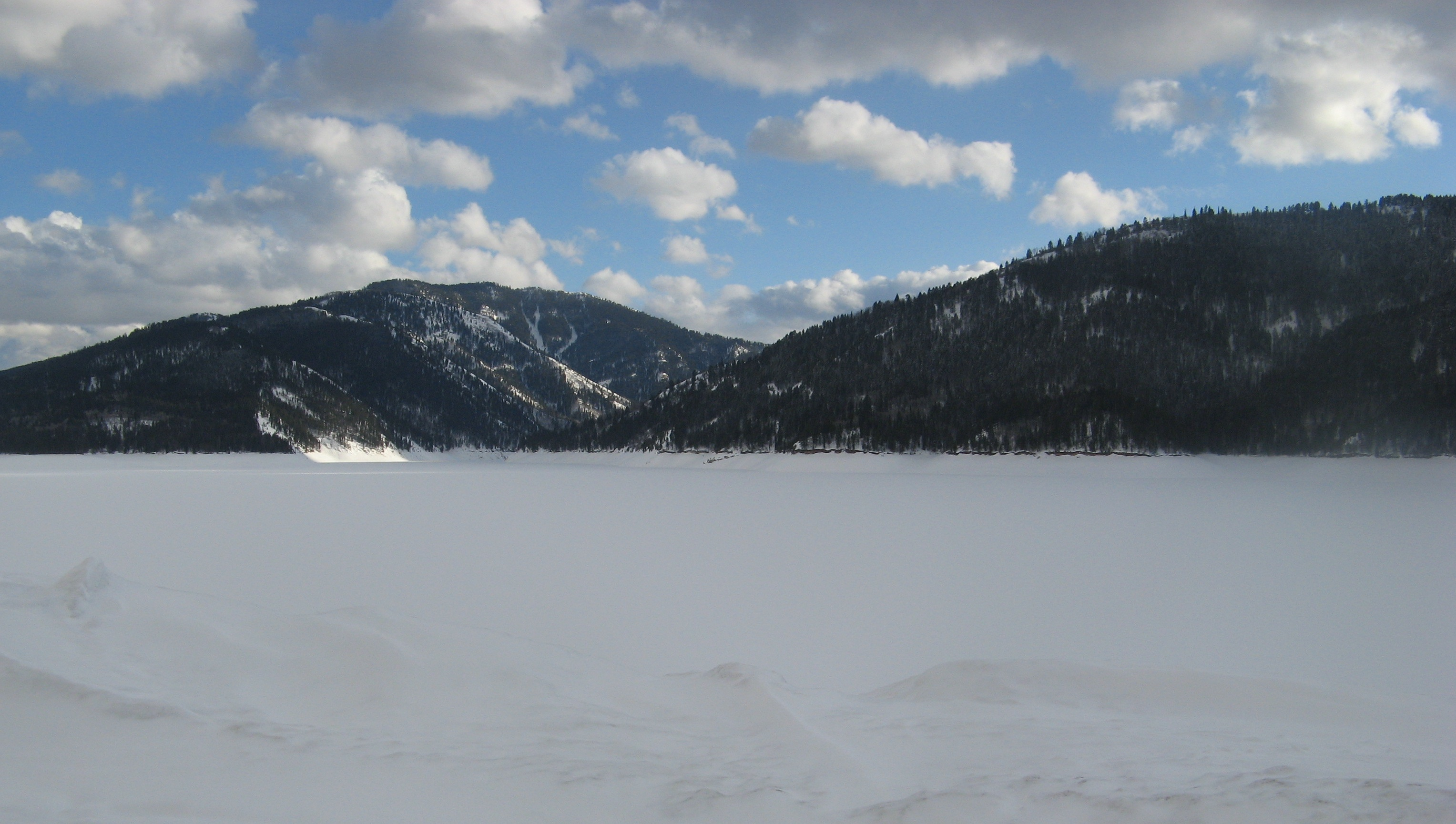 Looking across the Palisades Reservoir, just past the Palisades Dam, March, 2008.